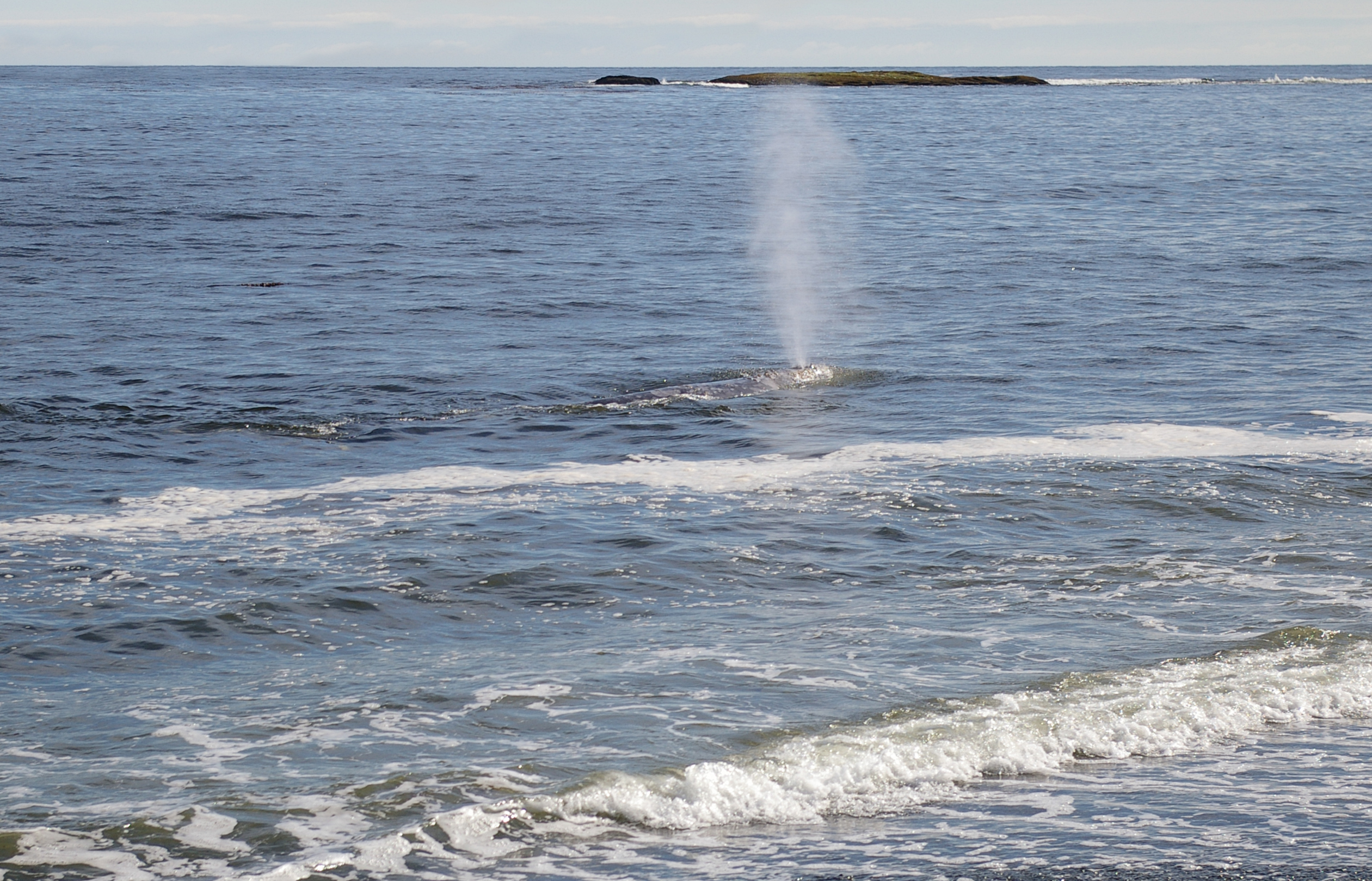 Eschrichtius robustus, Nootka Island, Vancouver Island, British Columbia, Canada.